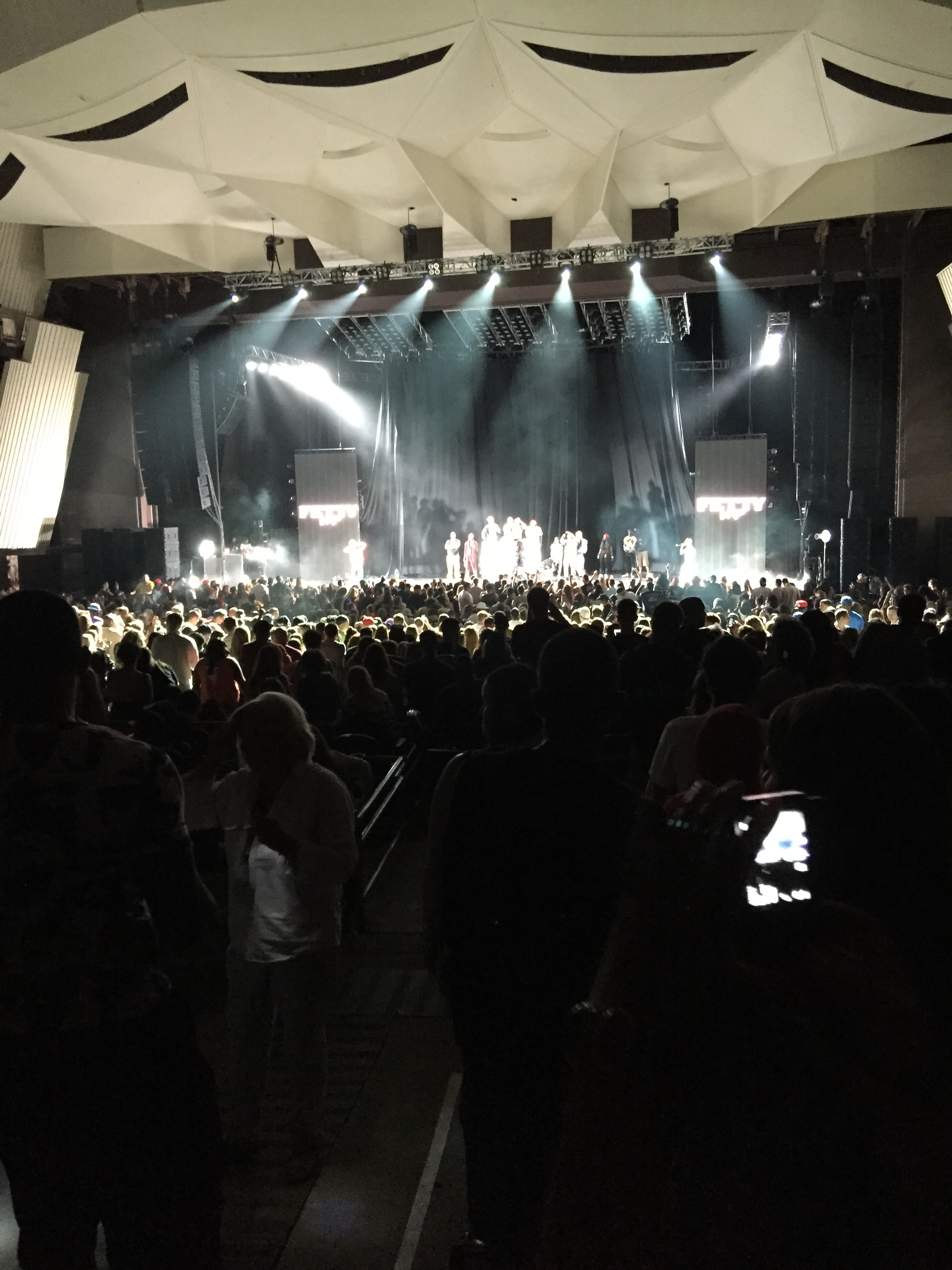 Fetty Wap at SPAC in Saratoga New York